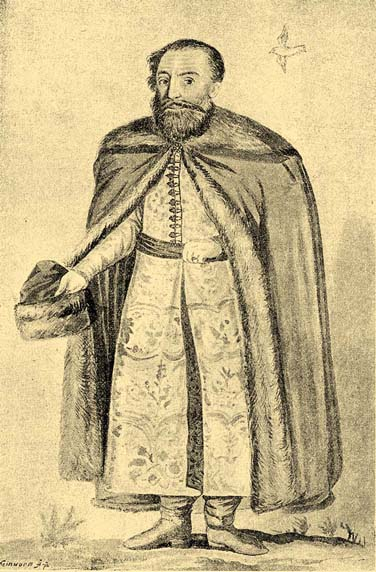 Michael Weiss, mayor of Kronstadt (Braşov)